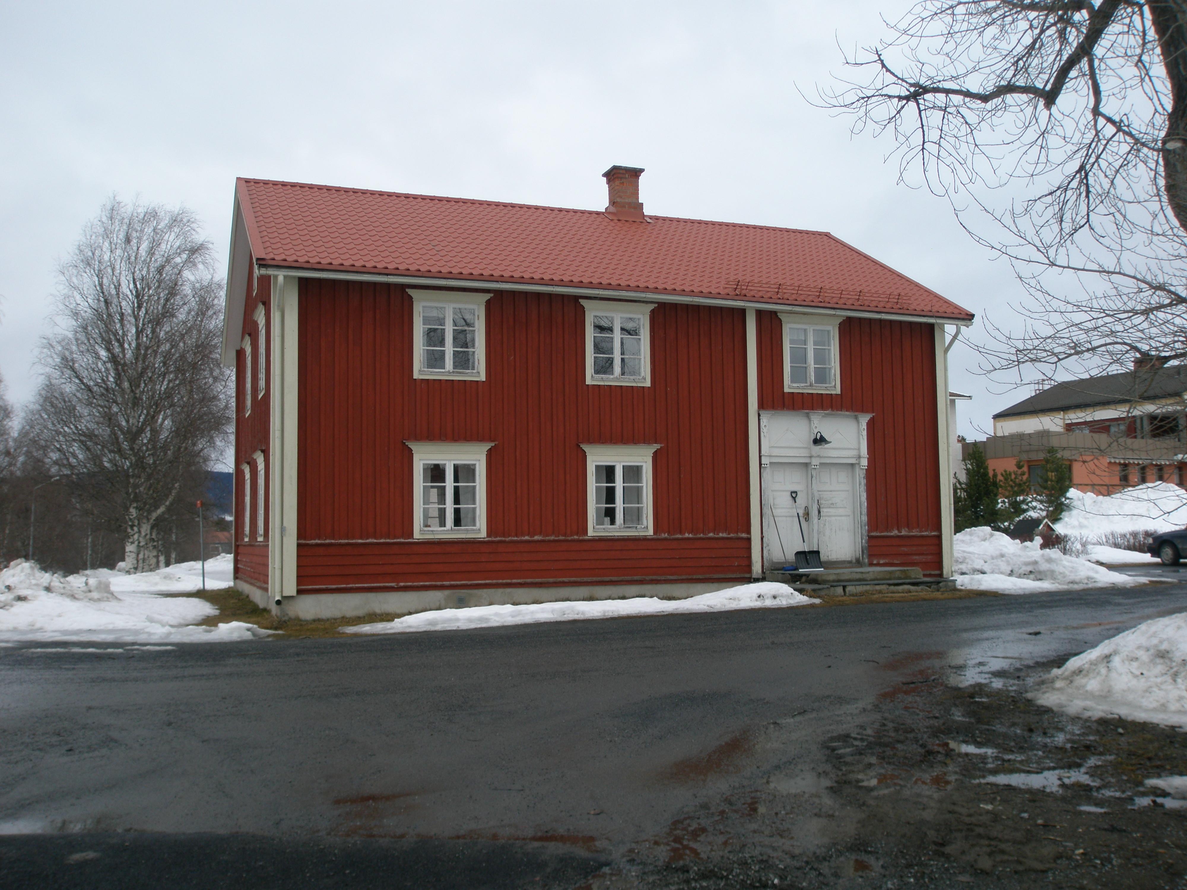 The Parish House in Ede, Offerdal, Krokom, Jämtland, Sweden.